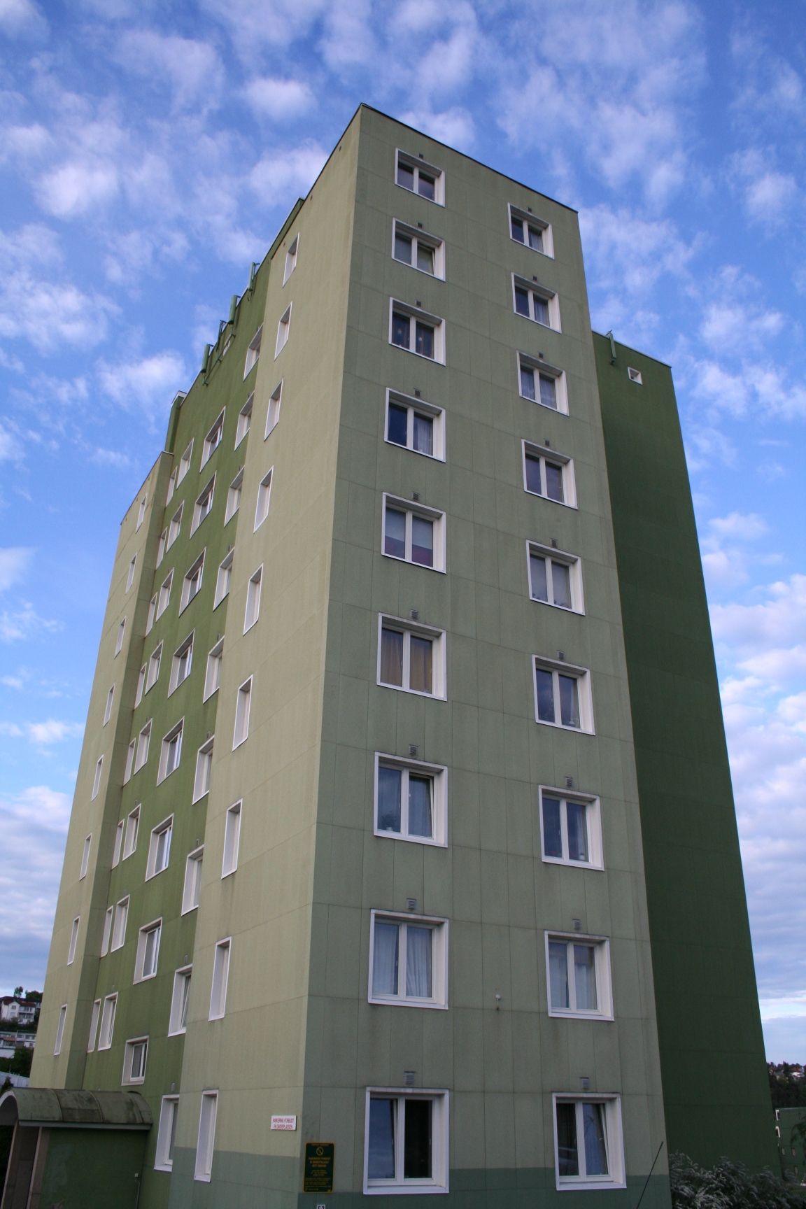 Place : Etterstad, Oslo, Norway Author : Quevaal Date : May 2005